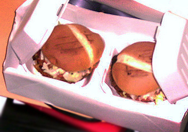 Late night drunk food: two veggie burgers from Montreal all-night fast food restaurant Lafleur, 16 February 2005.